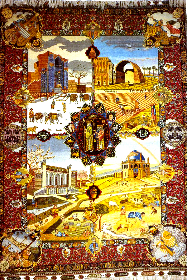 Azeri carpet Dord fesil, Tabriz school, XIX c. Azerbaijan Carpet Museum